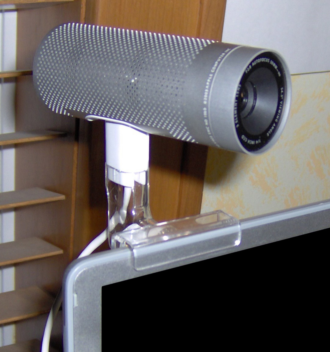 An Apple iSight camera mounted on a PowerBook G4